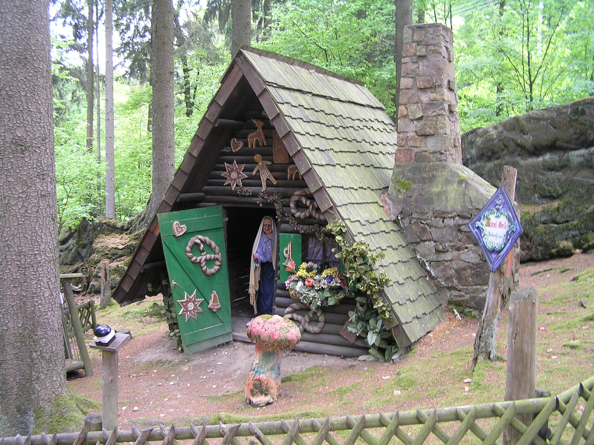 Fairy tale scene (Hansel and Gretel), made of plastic in the "Taunus-Wunderland" amusement park in Schlangenbad, Hesse, Germany